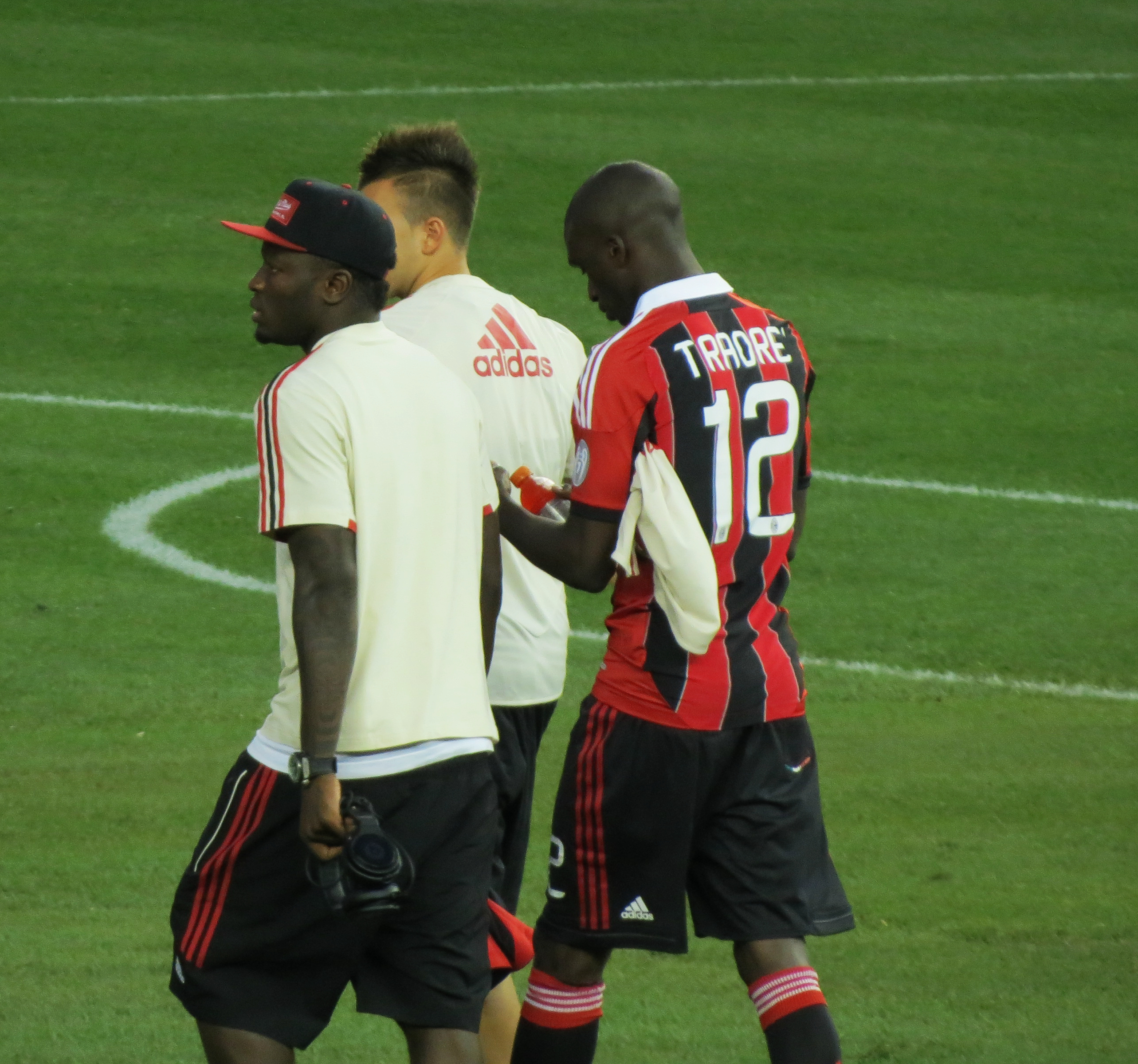 Sulley Muntari and Bakaye Traore of AC Milan.